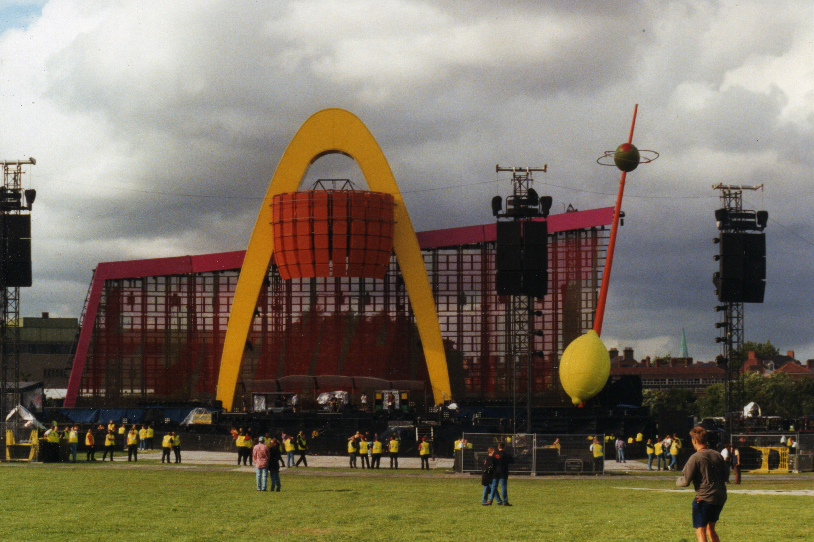 U2 PopMart Tour, Botanic Gardens, Belfast, Northern Ireland, August 1997